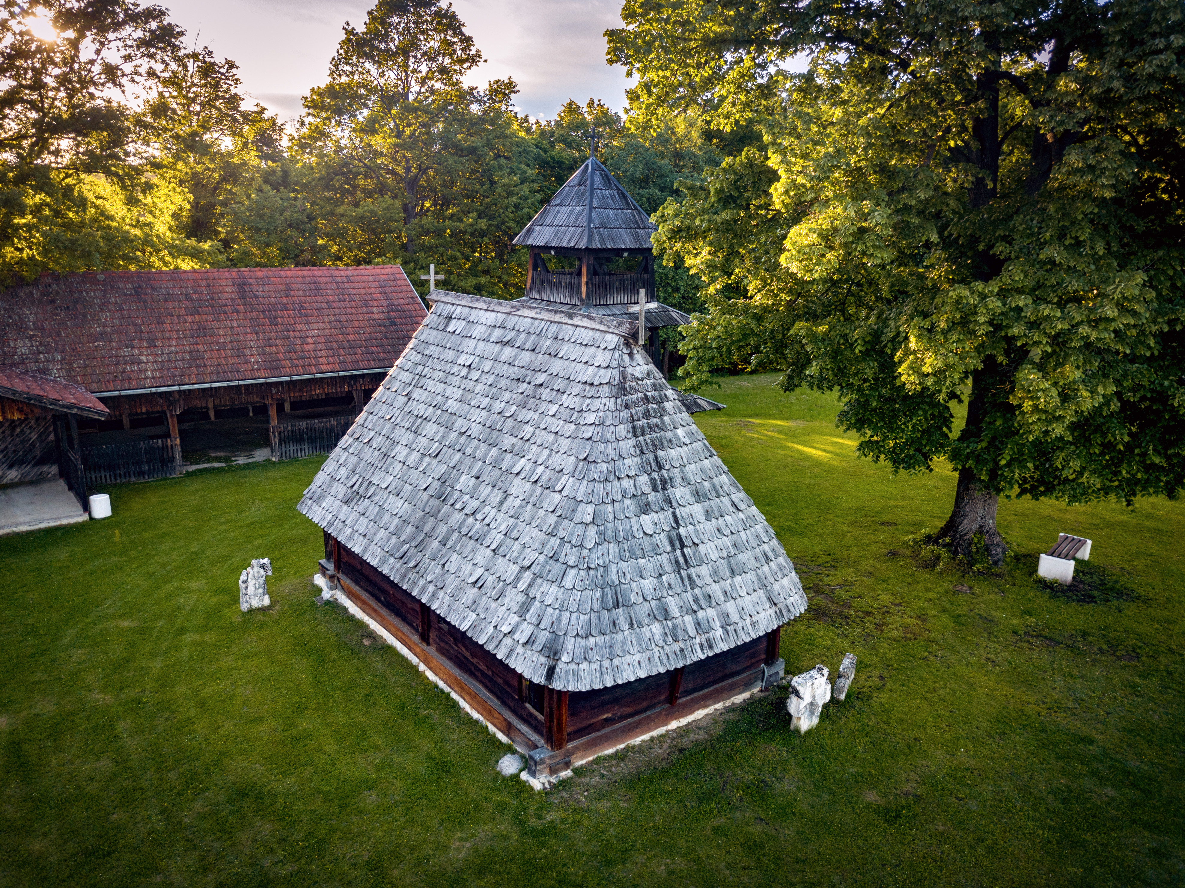 This image was uploaded as part of Trace of Soul 2019. Romanovci